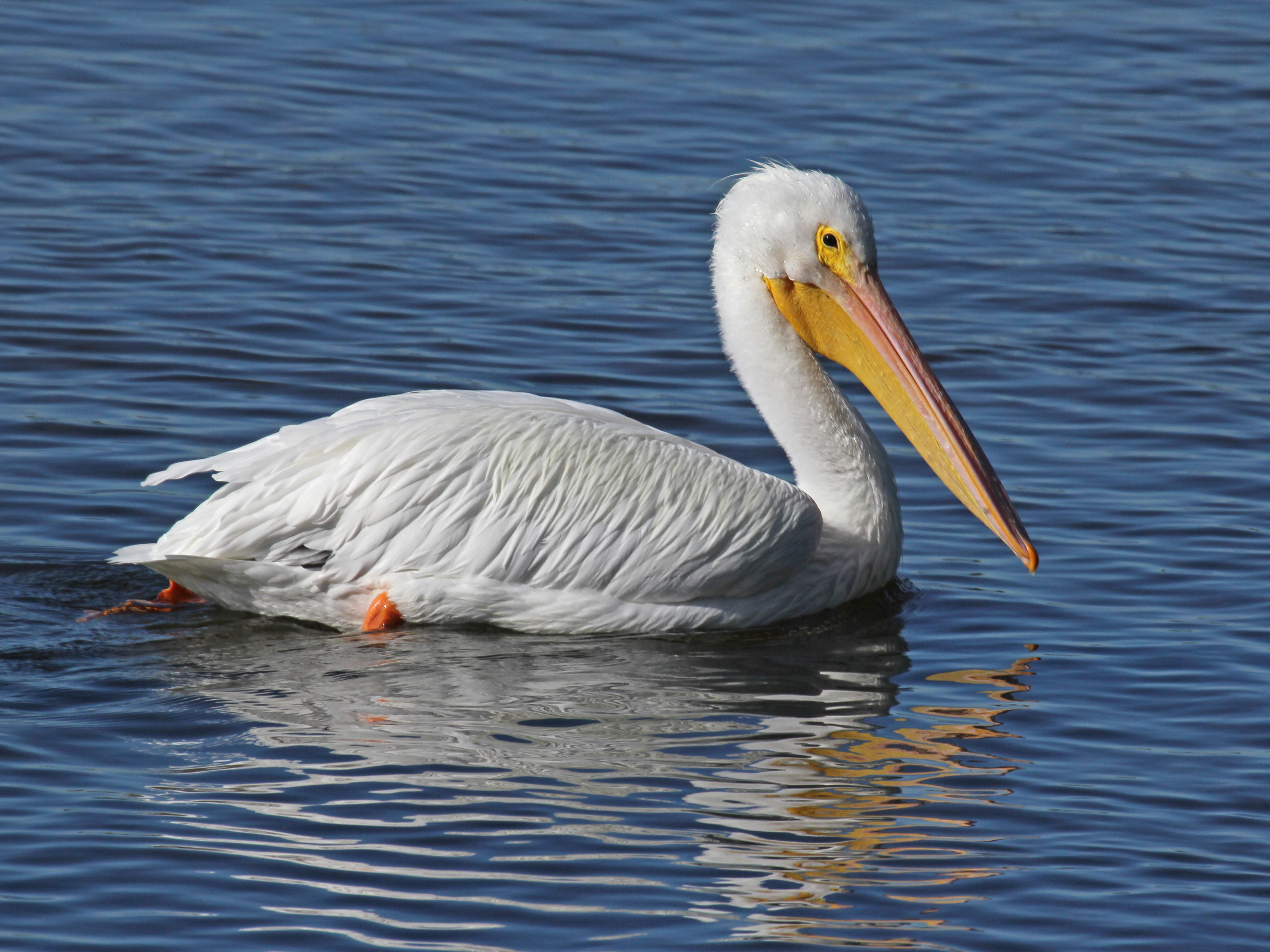 American White Pelican (Pelecanus erythrorhynchos) at Sanibel Island, Florida